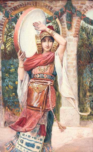 Jephthah’s Daughter, a watercolor by French artist James Tissot (1836–1902)